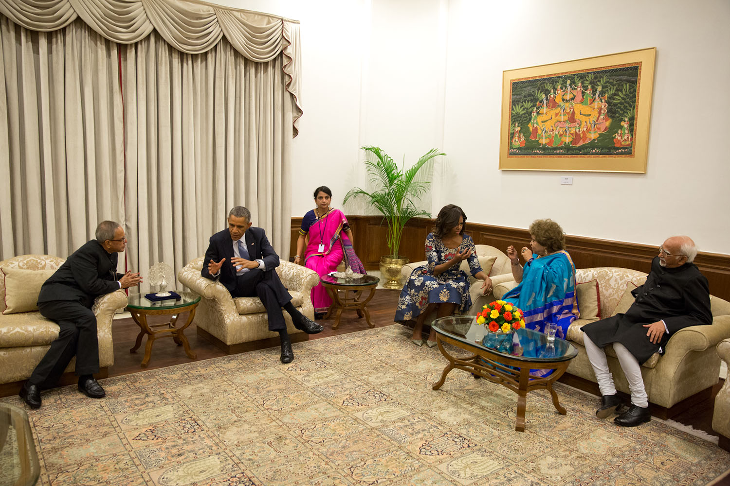 The President and First Lady visit with President Mukherjee, left, and Vice President Mohammad Hamid and Salma Ansari prior to the State Dinner.